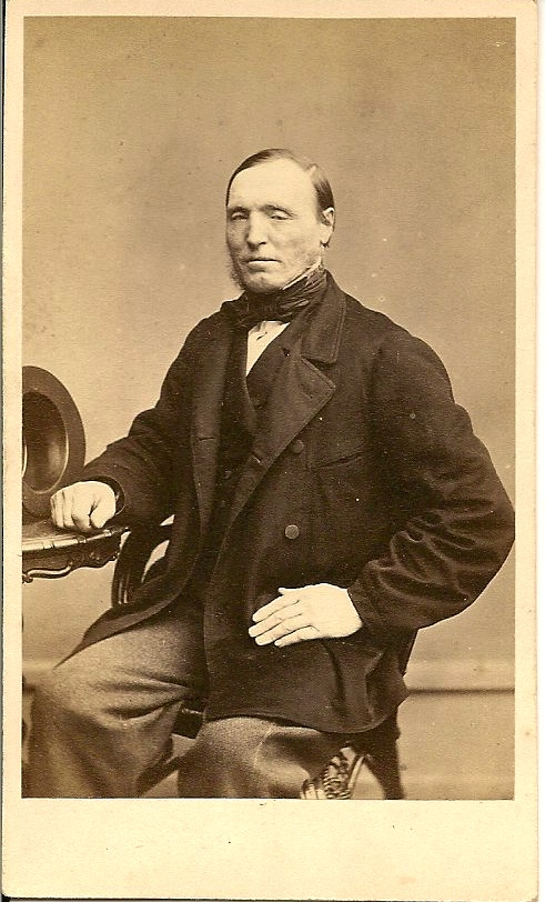 Swedish politician from late nineteenth century